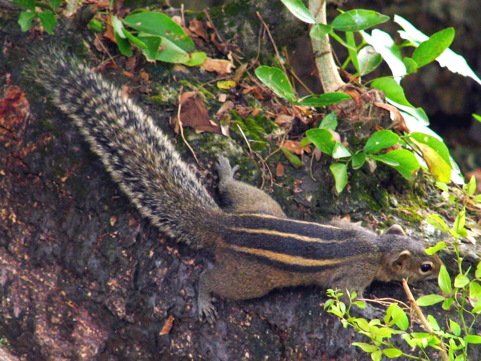 Three-striped palm squirrel (Funambulus palmarum) in Panadura, Sri Lanka.